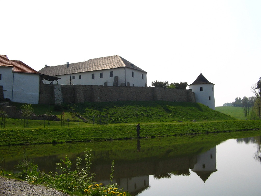 Žumberk fortress by Nové Hrady, České Budějovice District, Czech Republic